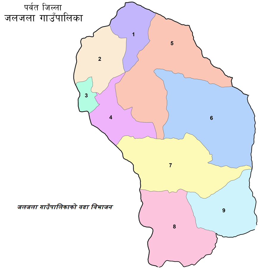 Jaljala